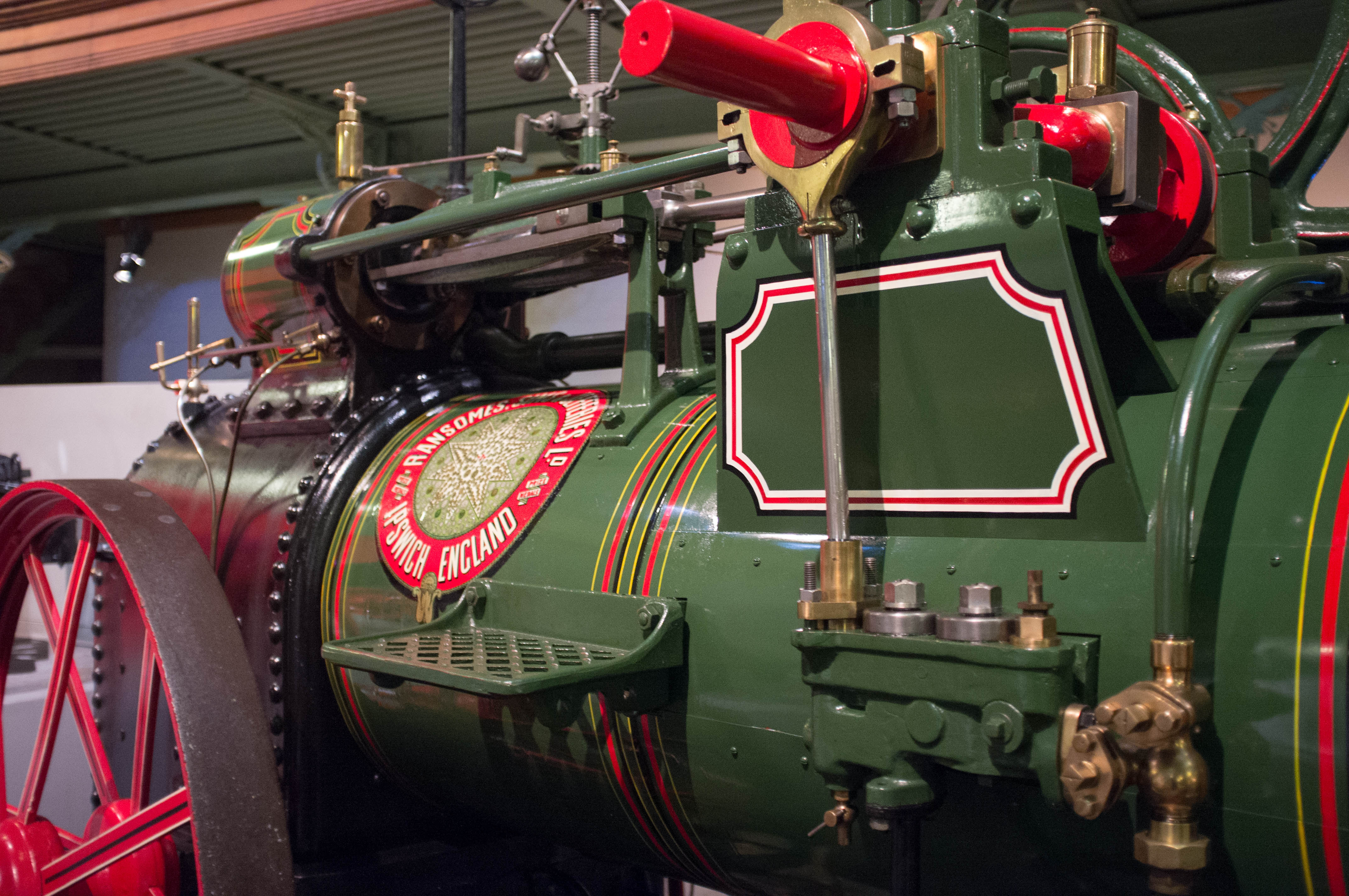 Powerhouse Museum Horse-drawn fire engine, 1895. This isn't a fire engine, it's an agricultural portable engine.